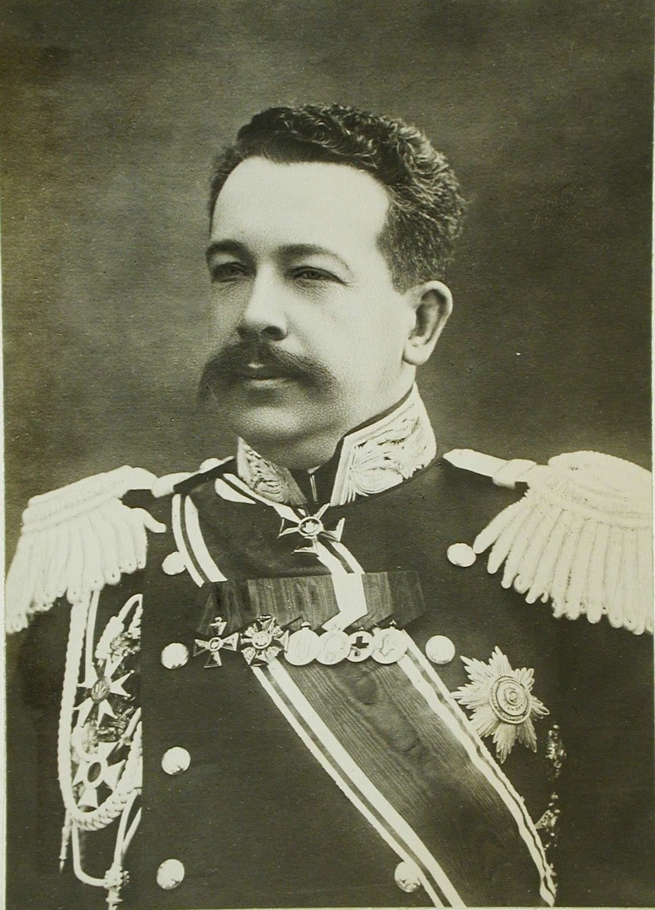 Major general Nikolai Nikolaevich Yanushkevich, then General of the Infantry (1914), Chief of the General Staff (1914), Chief of Staff to the Supreme Commander (1914—1915).